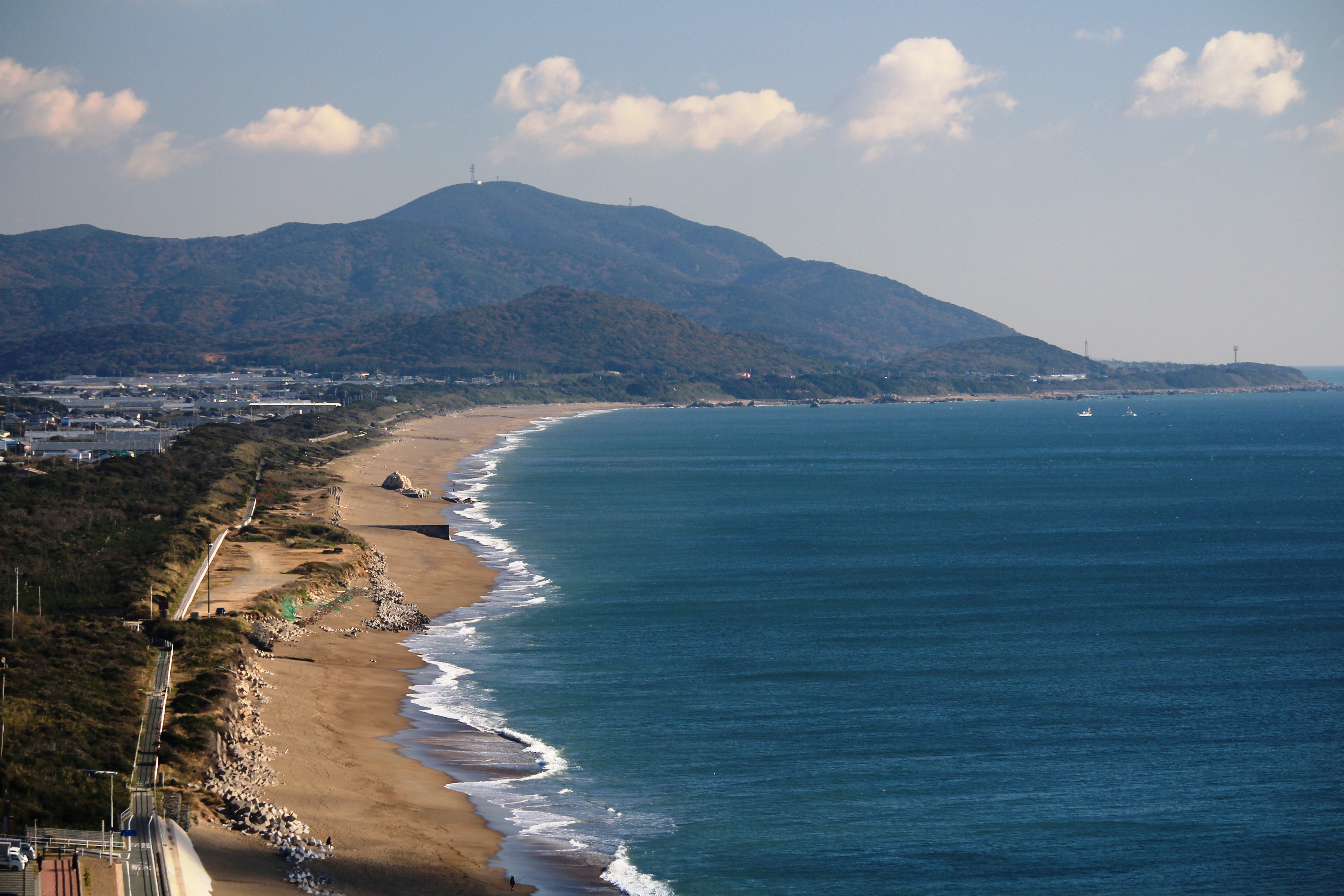 Ōyama (Mount Ō) seen from Cape Irago in Tahara, Aichi prefecture, Japan.